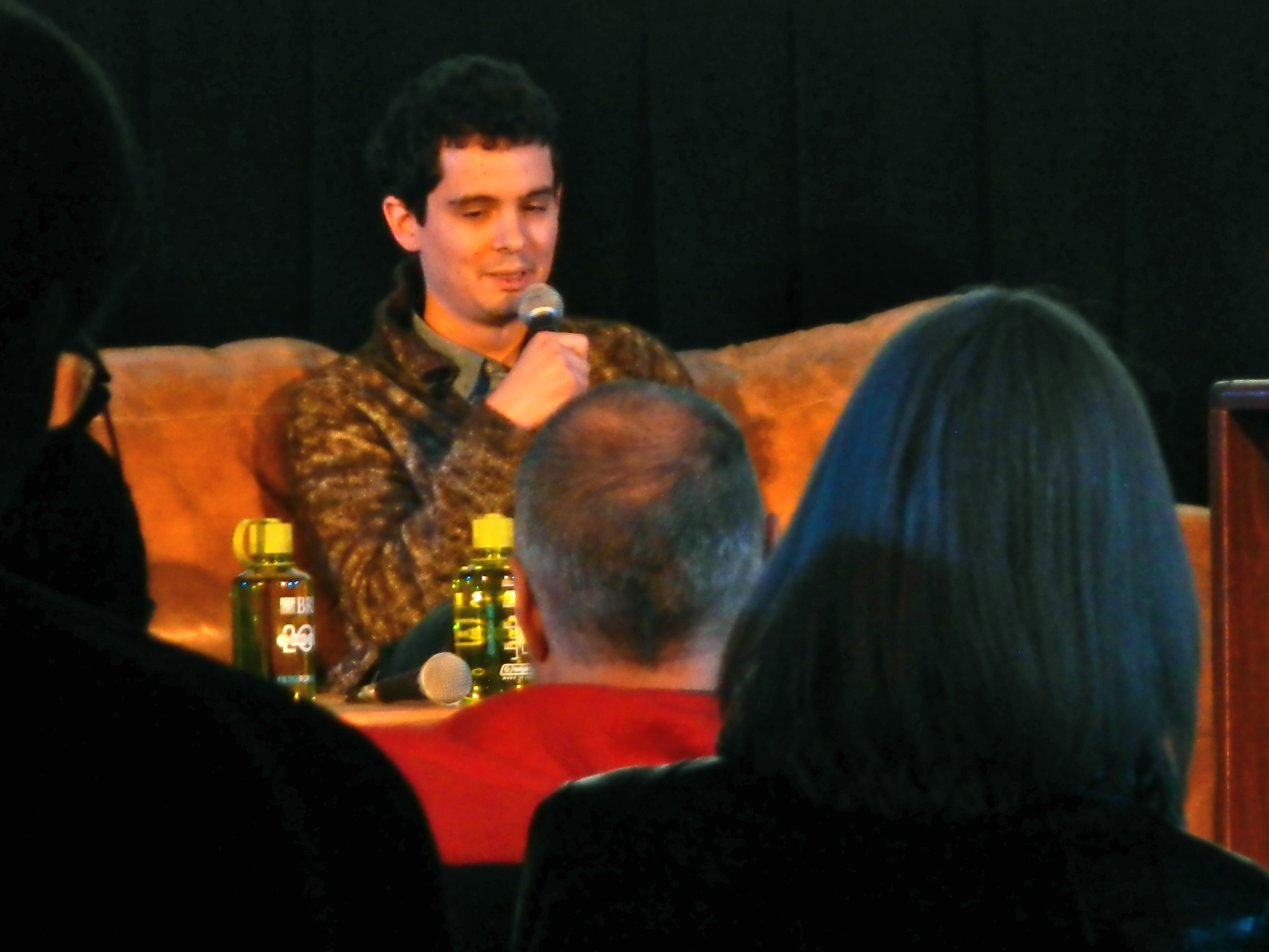 Sundance Film Church